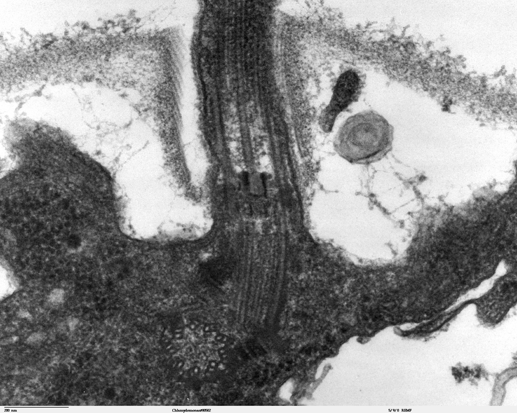 Transmission electron microscope image, showing an example of green algae (Chlorophyta). Chlamydomanas reinhardtii is a unicellular flagellate used as a model system in molecular genetics work and flagellar motility studies. This image is a longitudinal section through the flagella area. In the cell apex is the basal body that is the anchoring site for a flagella. Basal bodies originate from and have a substructure similar to that of centrioles, with nine peripheral microtubule triplets(see structure at bottom center of image). The two inner microtubules of each triplet in a basal body become the two outer doublets in the flagella. This image also shows the transition region, with its fibers of the stellate structure. The top of the image shows the flagella passing through the cell wall.